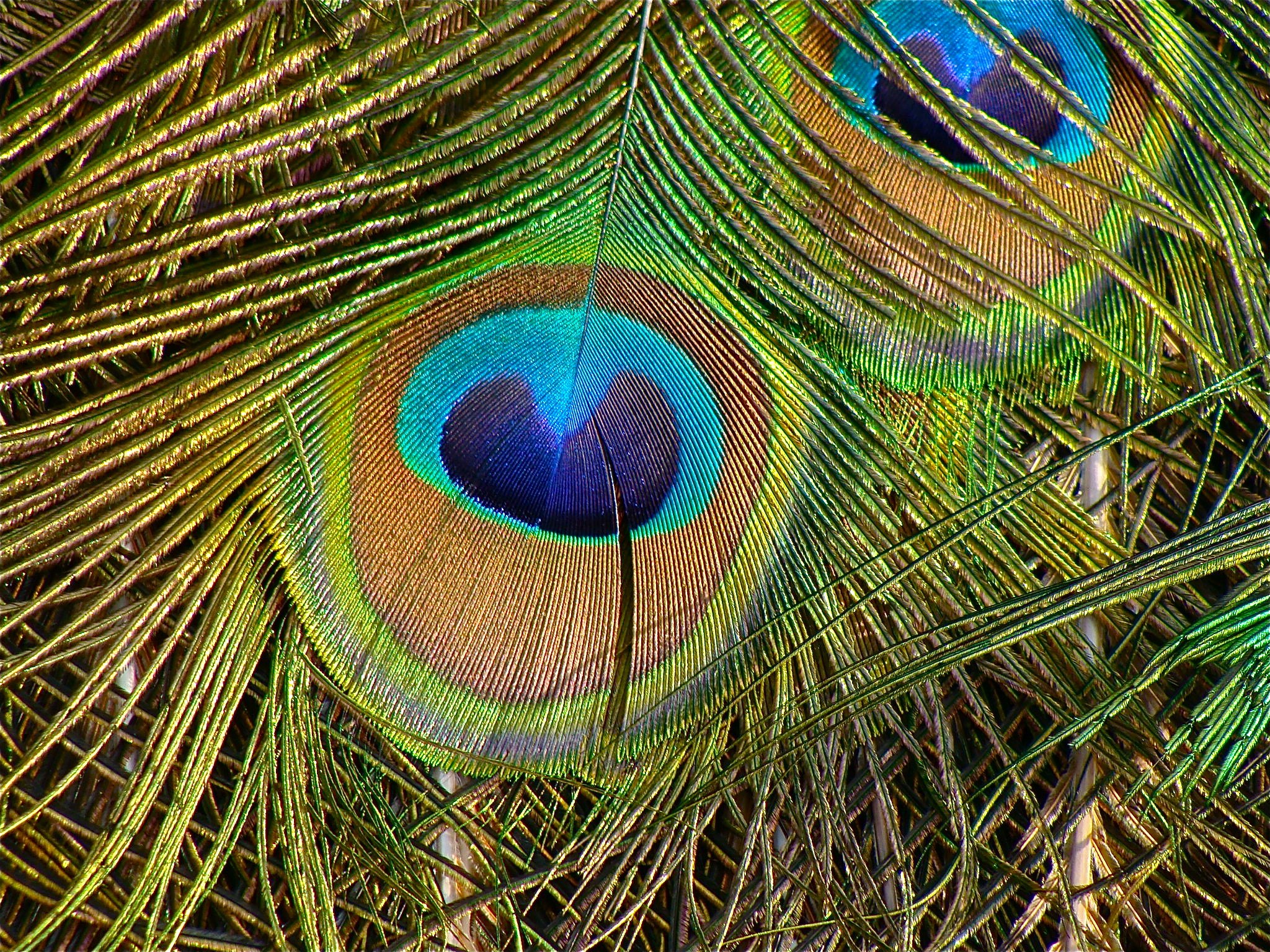 pavo cristatus feather